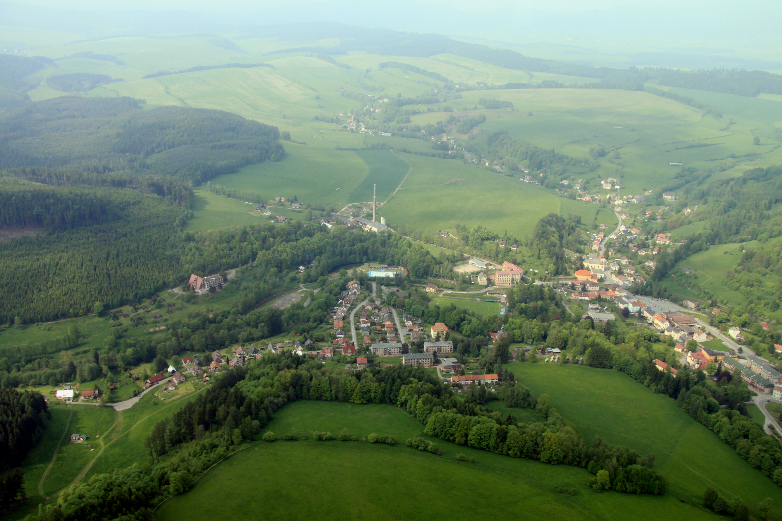 Small town Teplice nad Metují from air, eastern Bohemia, Czech Republic